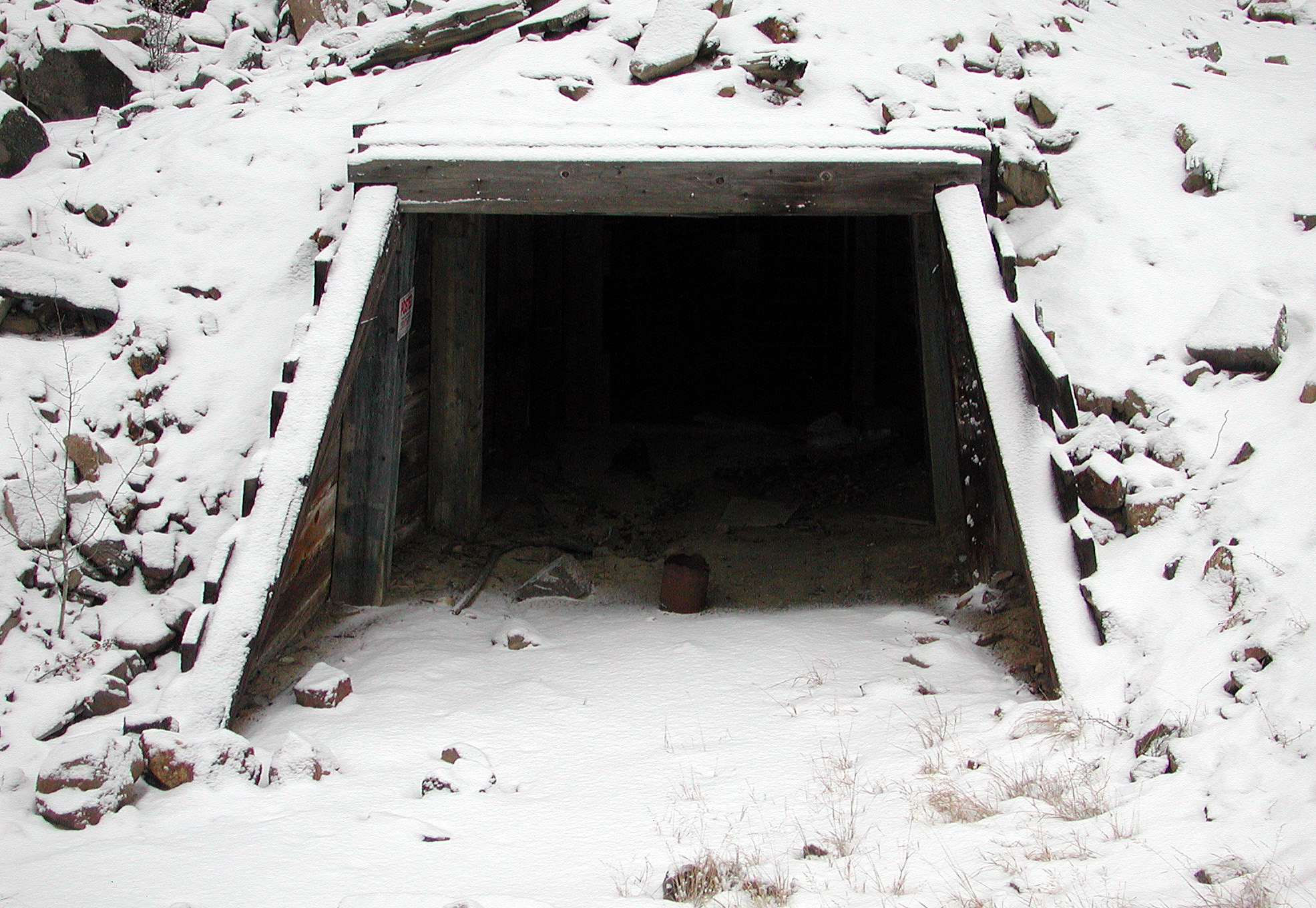 Entrance to the Hope-Katy mine complex in Basin, Montana. In 2007, the portal was marked "no trespassing," and the way was blocked by a metal gate inside.